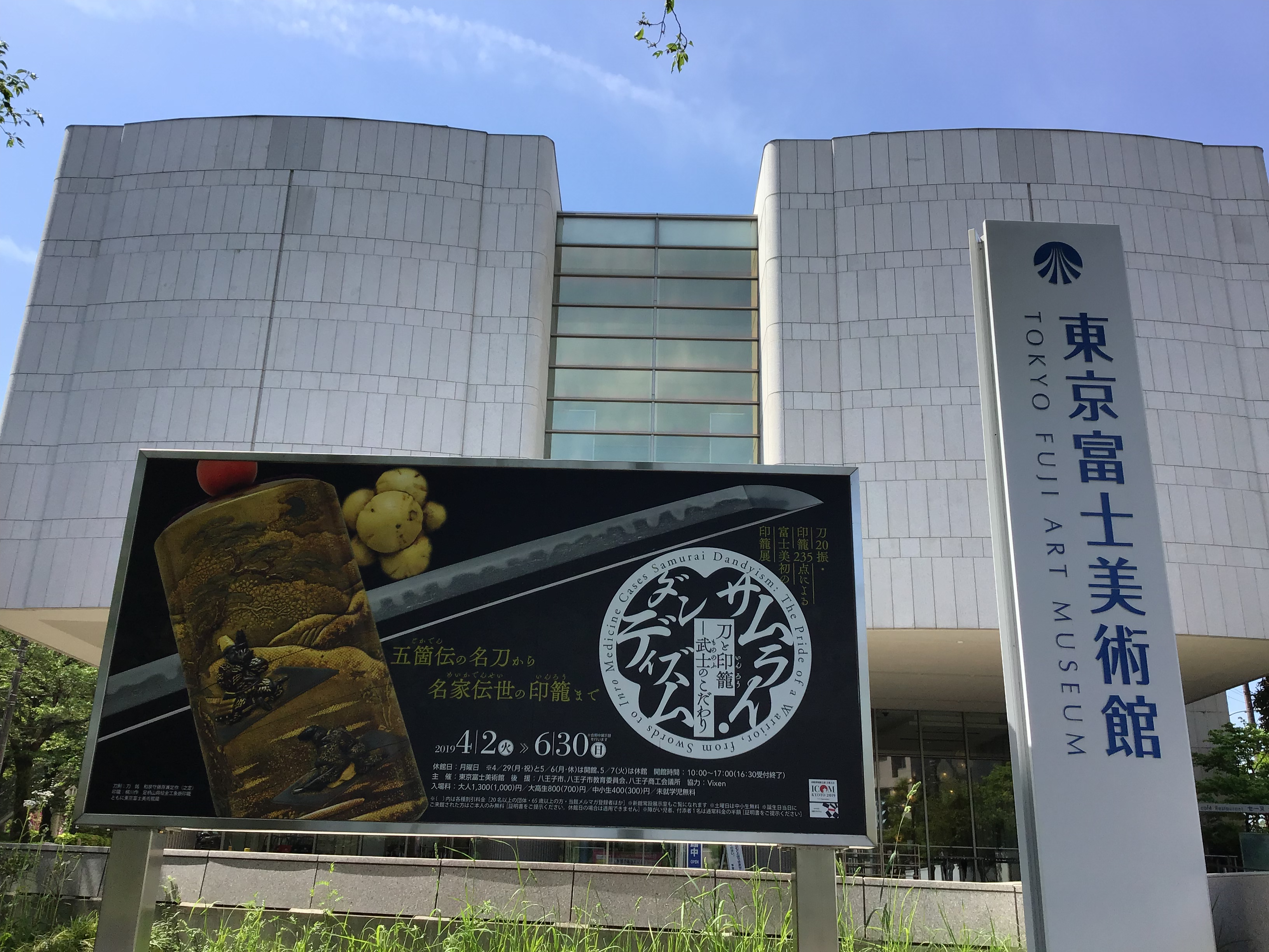 Tokyo Fuji Art Museum. Hachiouji,Tokyo,Japan